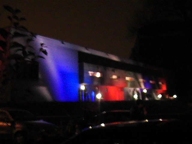 De Uithof in The Hague, Netherlands: a speedskating oval, ice hockey arena (home to HYS The Hague) and amusement centre.